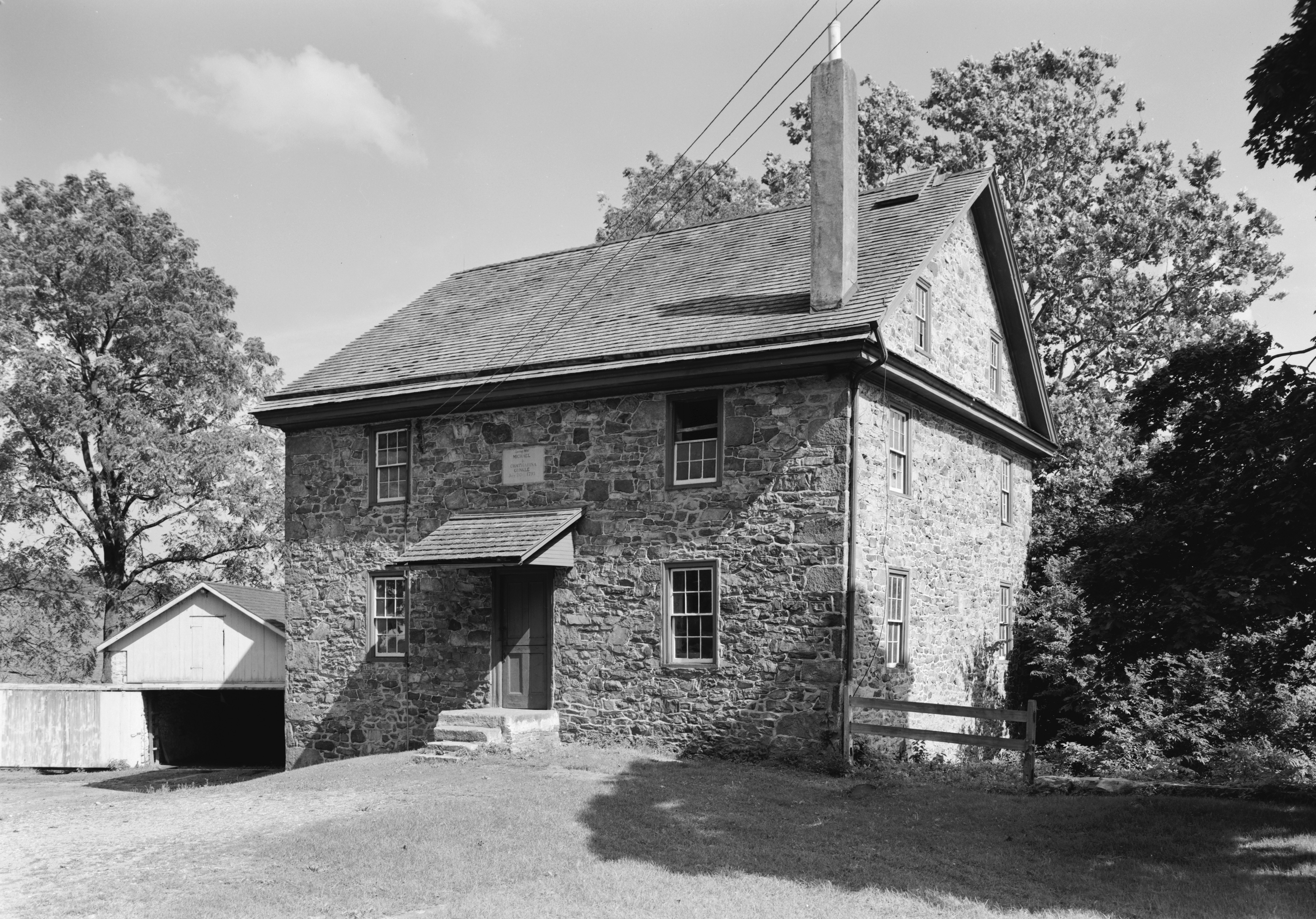 Spring Mill Complex, or Michael Gunkle Spring Mill, on the NRHP since December 14, 1978. Located southwest of Devault at the junction of Moores Road and Pennsylvania Route 401, in East Whiteland Township, Chester County, Pennsylvania.